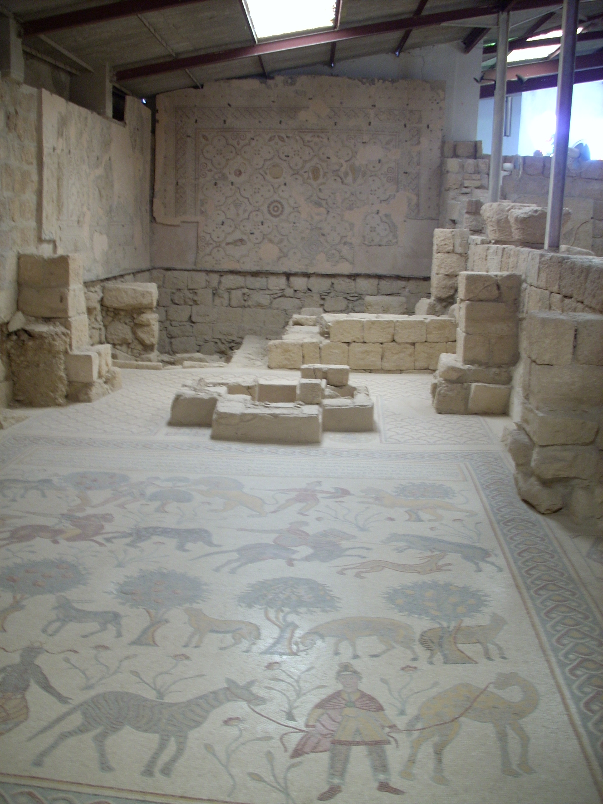 Mosaics of the floor of the Moses Memorial Church, Mount Nebo, Jordan : the mosaic of the Old Diakonikon (530 A.D.).